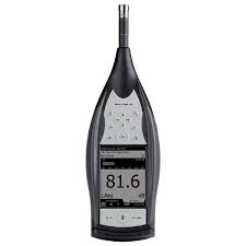 sound level meter Brüel&Kjær 2250 light